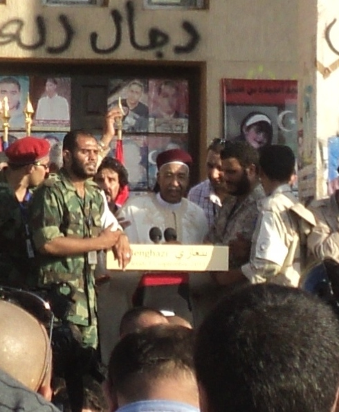 Ahmed Zubair es-Senussi (in the middle), member of the Libyan Transitional Council, meet the people at Benghazi.